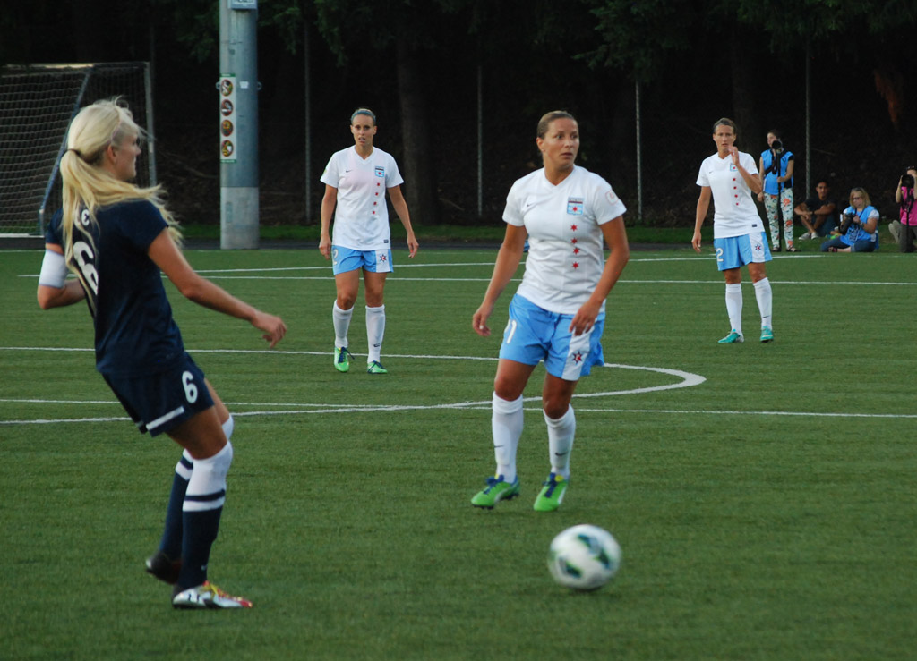 Inka Grings playing for the Chicago Red Stars vs Seattle Reign FC on July 25, 2013 in Tukwila, Washington.